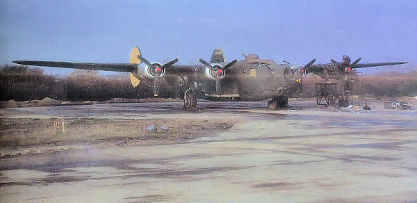 B-24H-20-FO Liberator Serial 42-94860 "Appassianato" of the 846th Bomb Squadron, 489th Bombardment Group, at Halesworth Airfield, England, World War II. Taken in late 1944 after tail markings had changed to all yellow.